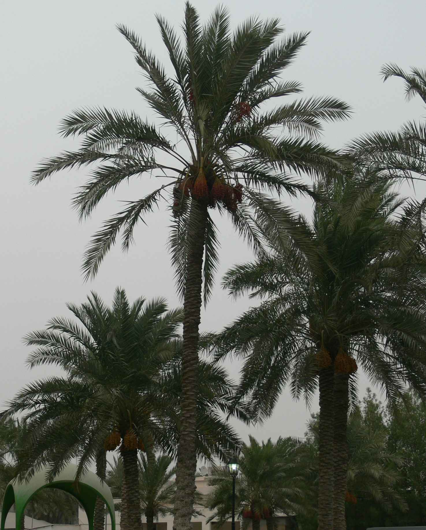 Plam trees next to al salmaneya roundabout.